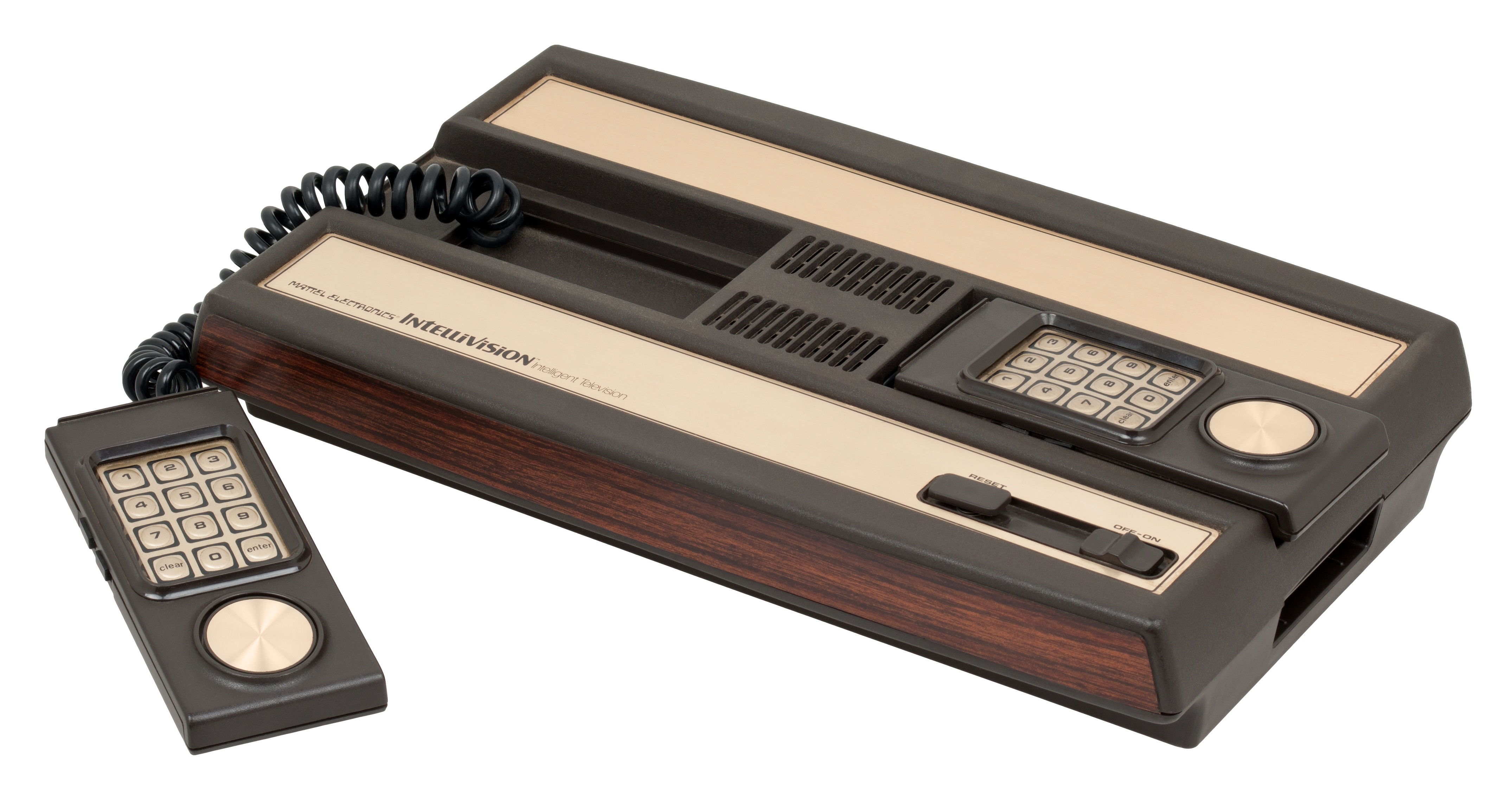 The Intellivision, a 2nd generation video game console released by Mattel in 1979.